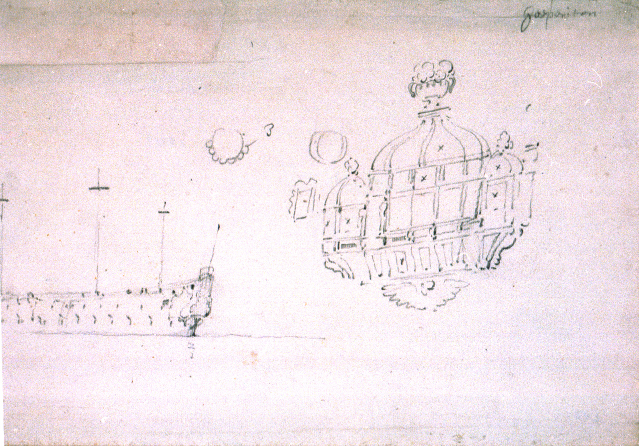 The quarter-gallery of the Happy Return The detail of the port quarter-gallery and a square port and two wreathed ports just before it. Bottom left, a port broadside view of the ship in the middle-distance, only her lowermasts stepped. It is inscribed ‘heeperiton’. This is an unsigned pencil drawing by the Younger. The quarter-gallery of the Happy Return